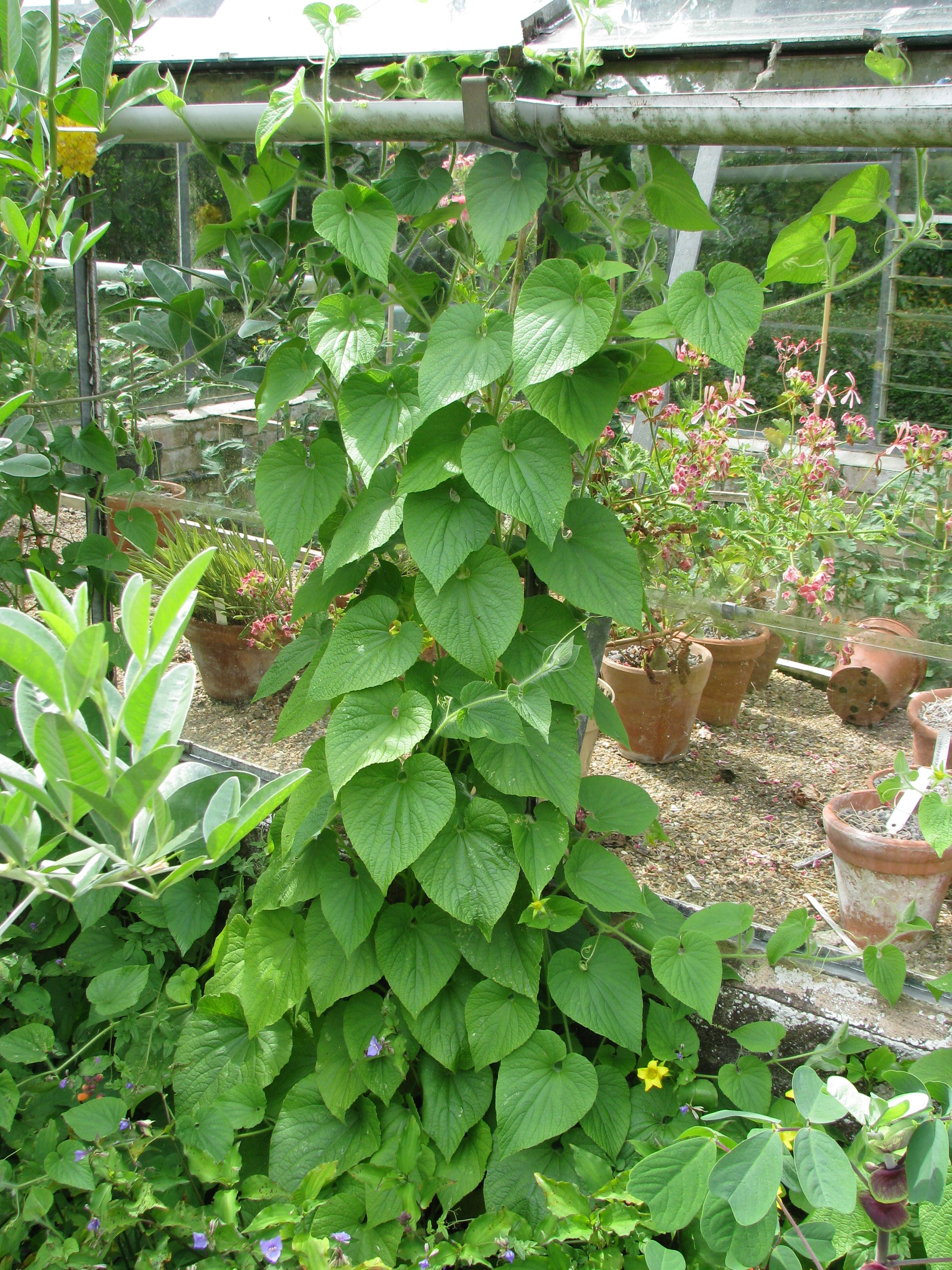 I love the fresh lusty growth of this species - even without the flowers